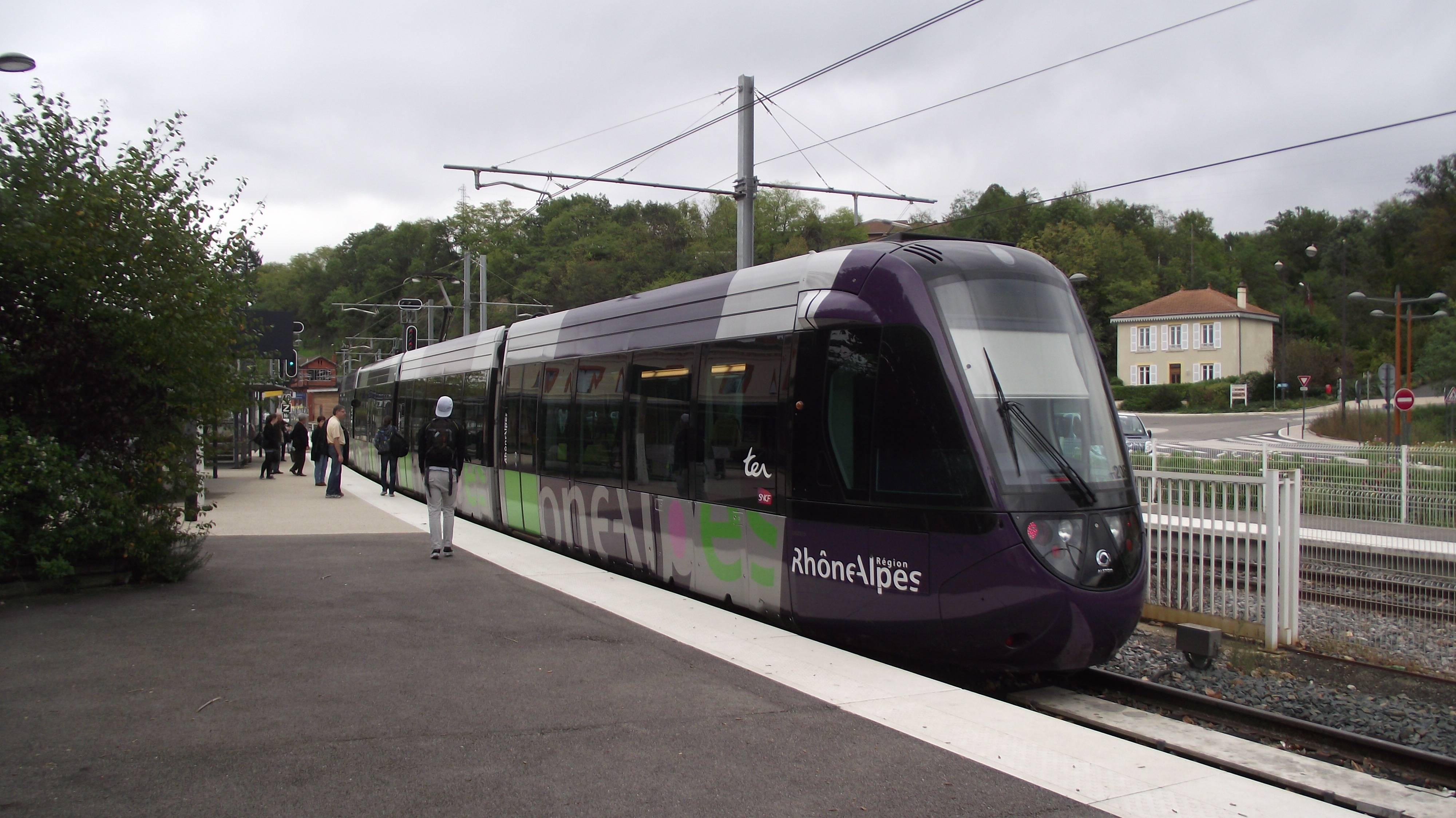 Tramtrain in l'Arbresle